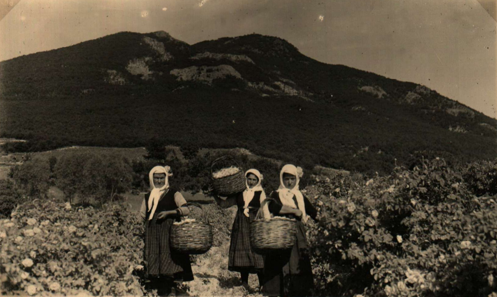 Rose harvests in Bulgaria